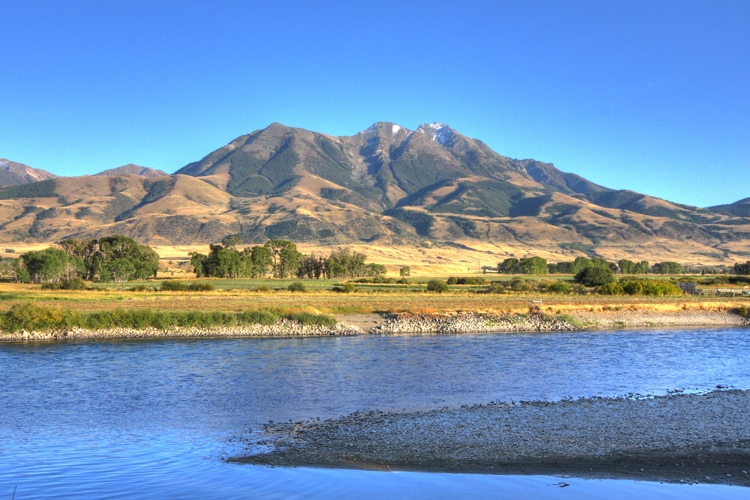 Picture of Emigrant Peak and the Yellowstone River taken from Rivers Bend Lodge near Emigrant, Montana.